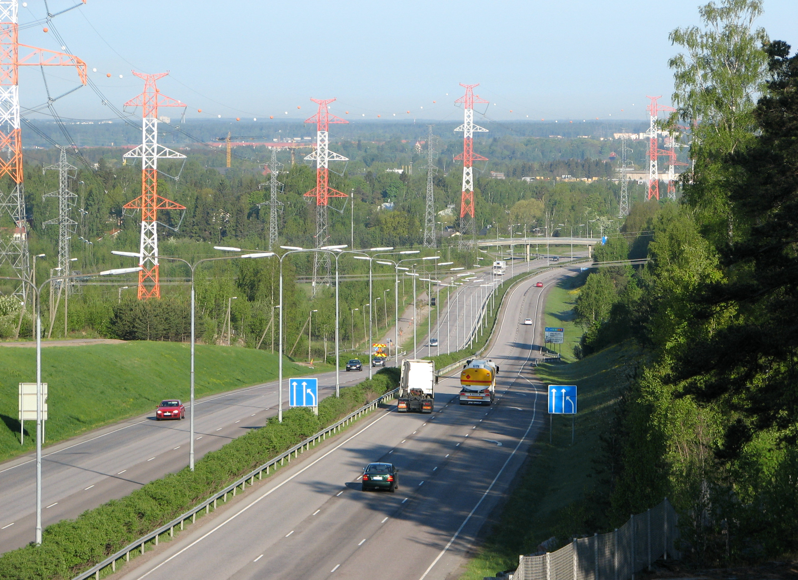 Ring road III (national road 50, E18) between Kuninkaala and Vanha Porvoontie interchanges in Vantaa.